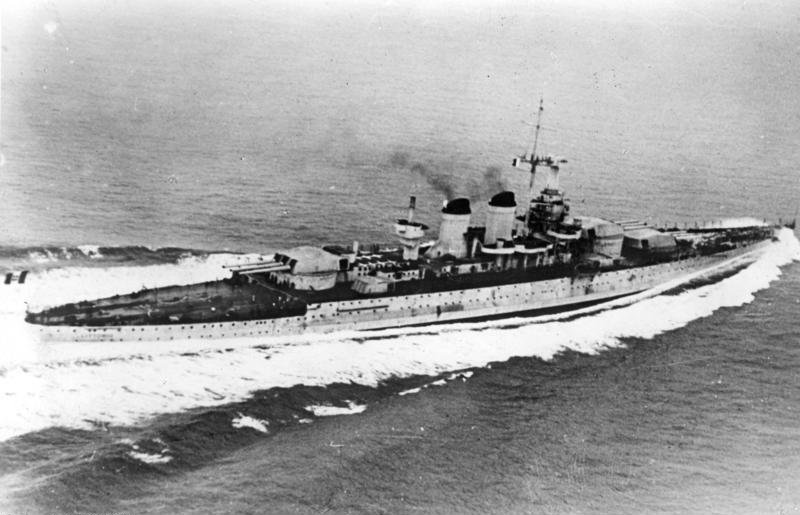 Italian battleship RN Littorio on first trial 1937